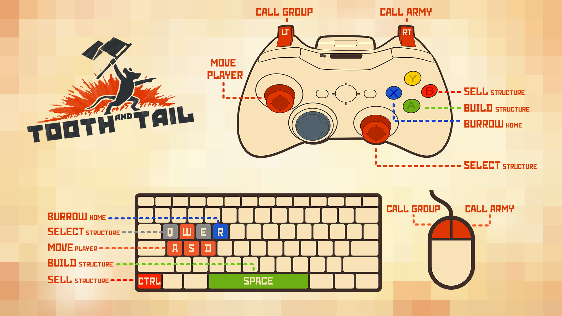 Controls page for the video game Tooth and Tail